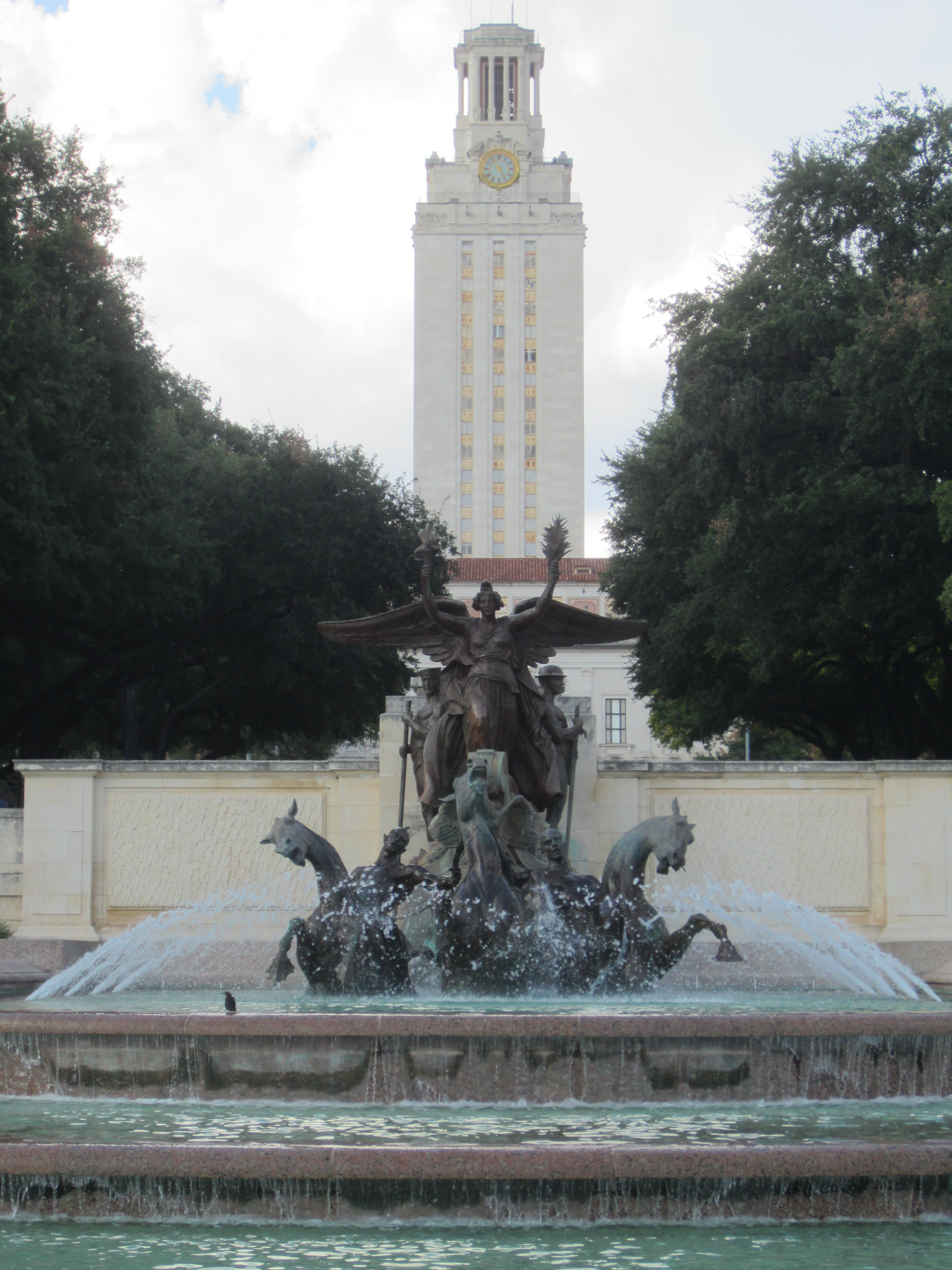 Austin, Texas (August 30, 2018)